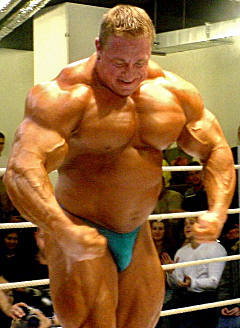 Bodybuilder Markus Rühl performing in Biberach an der Riß.